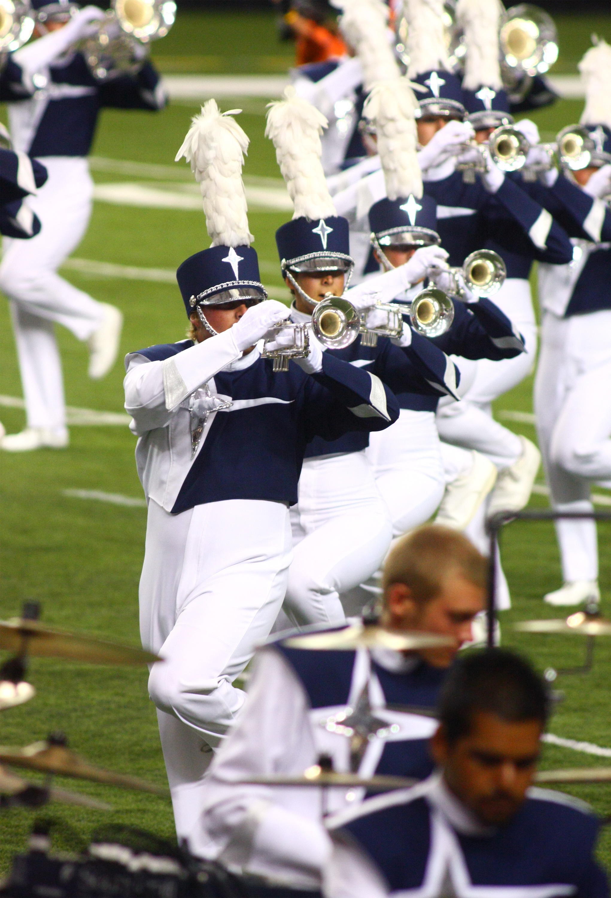 The Blue Stars, 7/26/08.